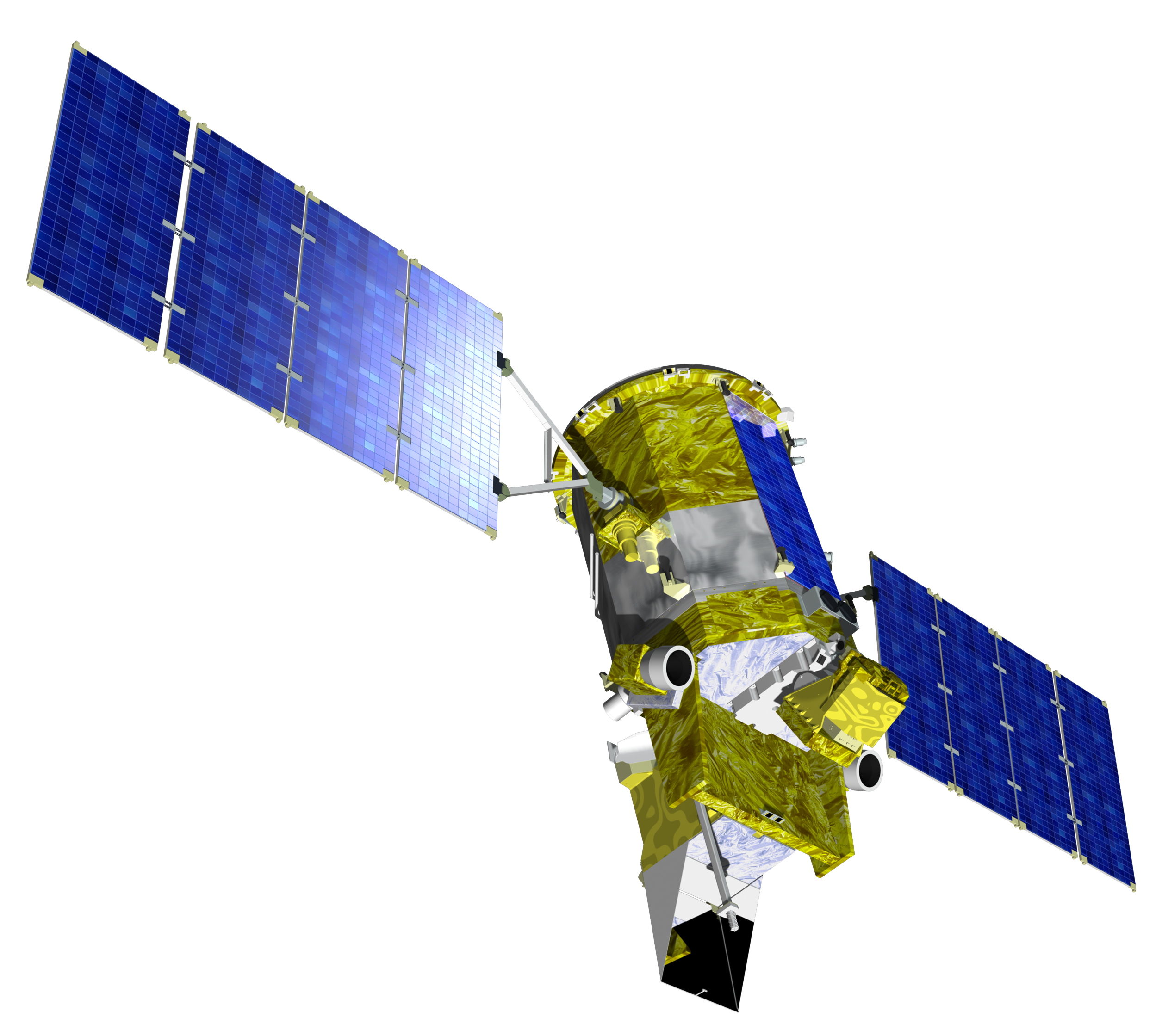 Glory Satellite Artist rendering